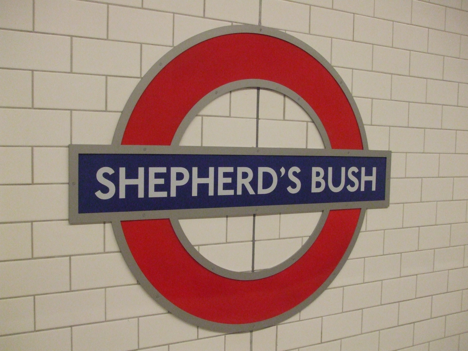 Shepherd's Bush tube station (Central line) platform roundel